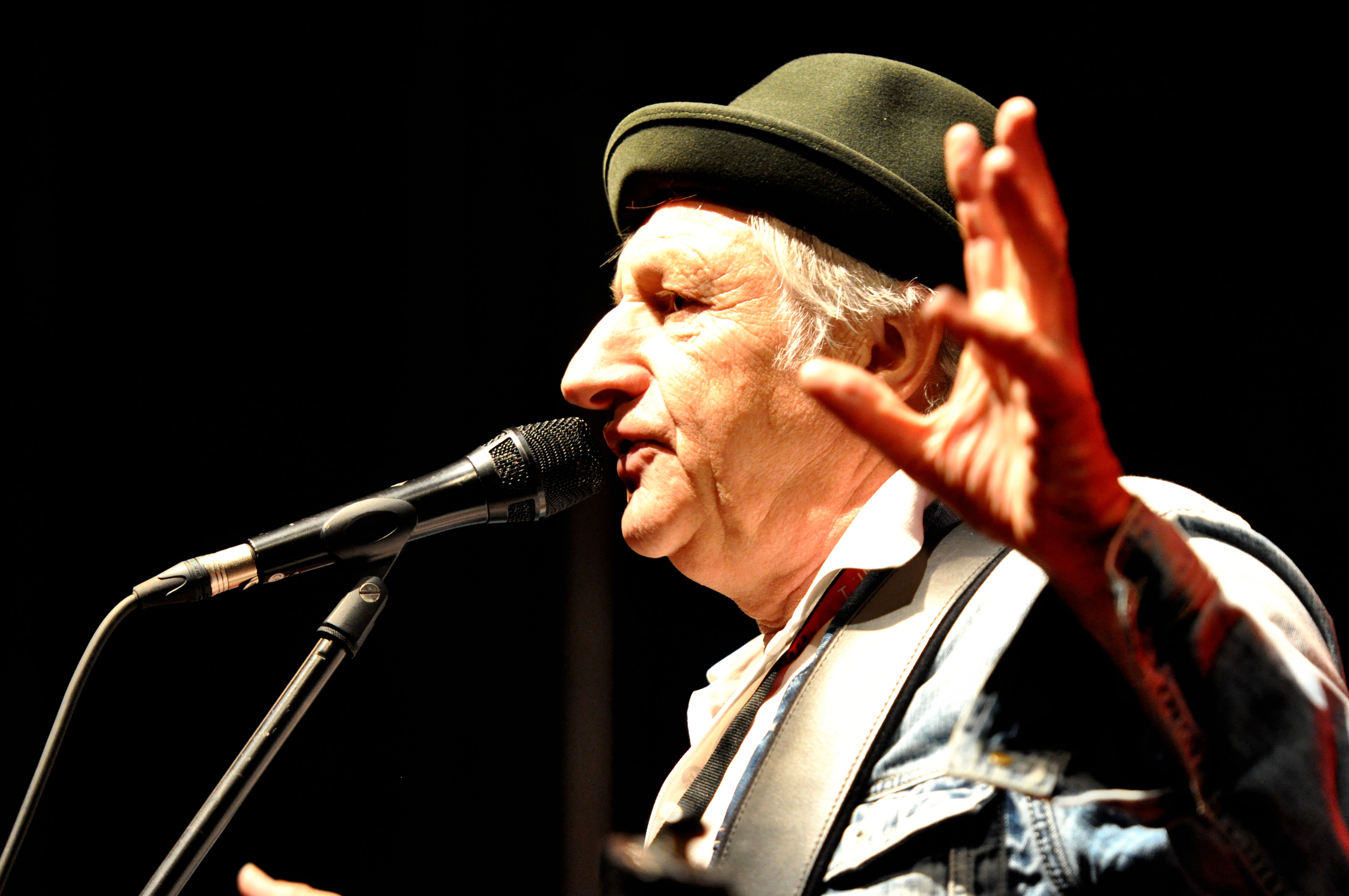 Georg Ringsgwandl (D), Sebald Square stage, 40th music festival 'Bardentreffen' 2015 at Nuremberg, Germany Festivalsommer This photo was created with the support of donations to Wikimedia Deutschland in the context of the CPB project "Festival Summer".